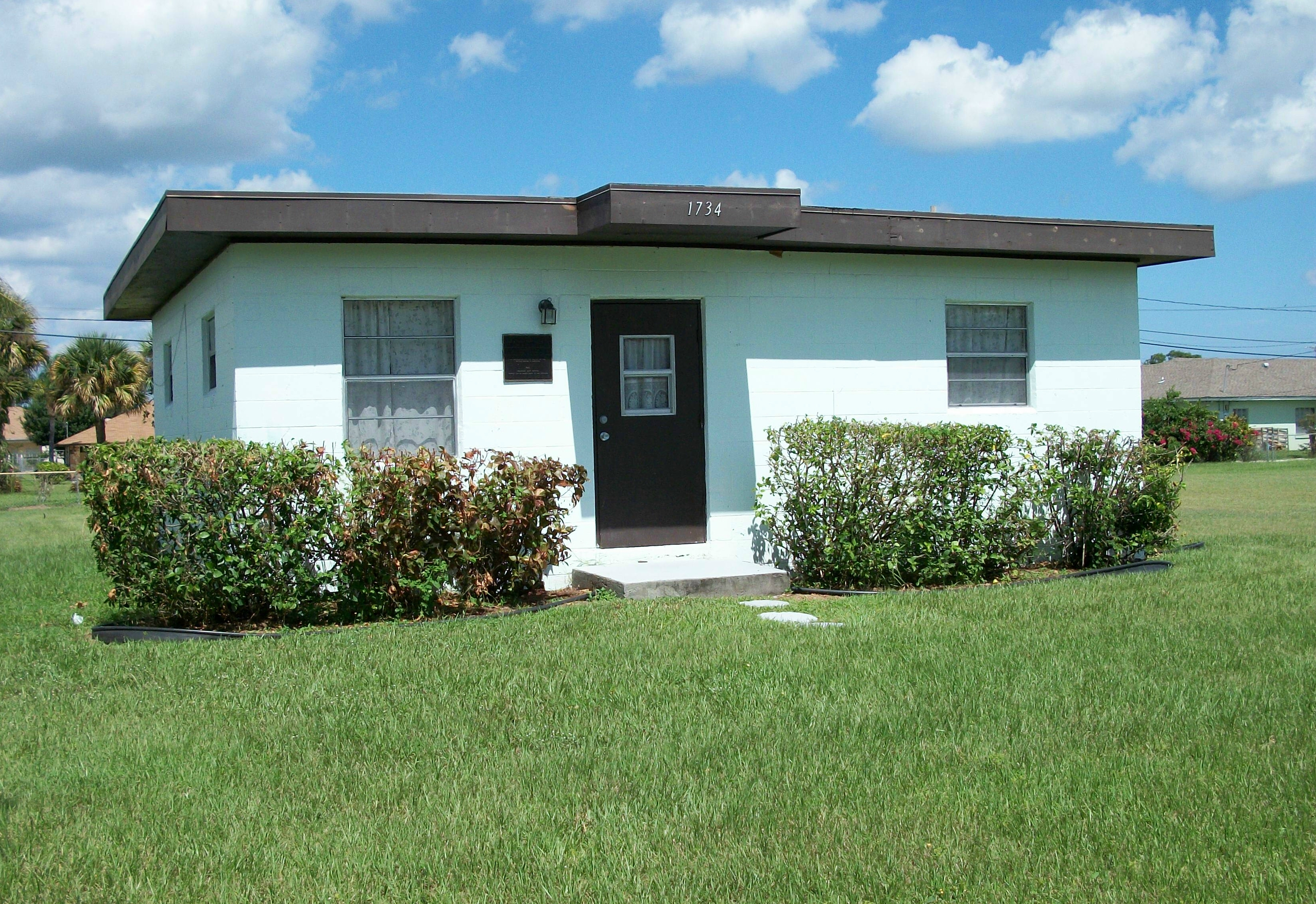 Ft. Pierce Zora Neale Hurston House Object location27° 27′ 38″ N, 80° 20′ 37″ W